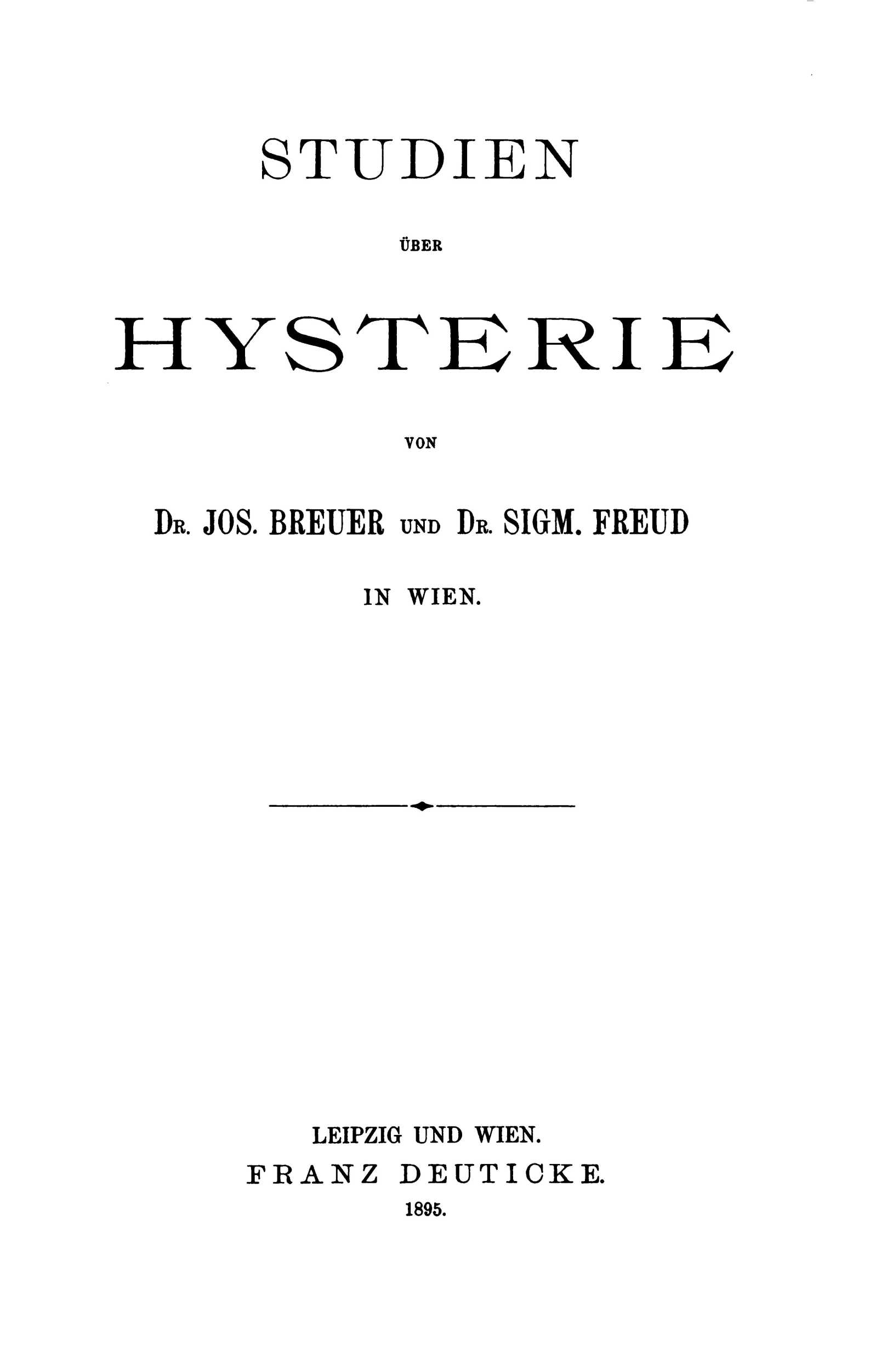 This is a scan of the historical document: Studien über Hysterie